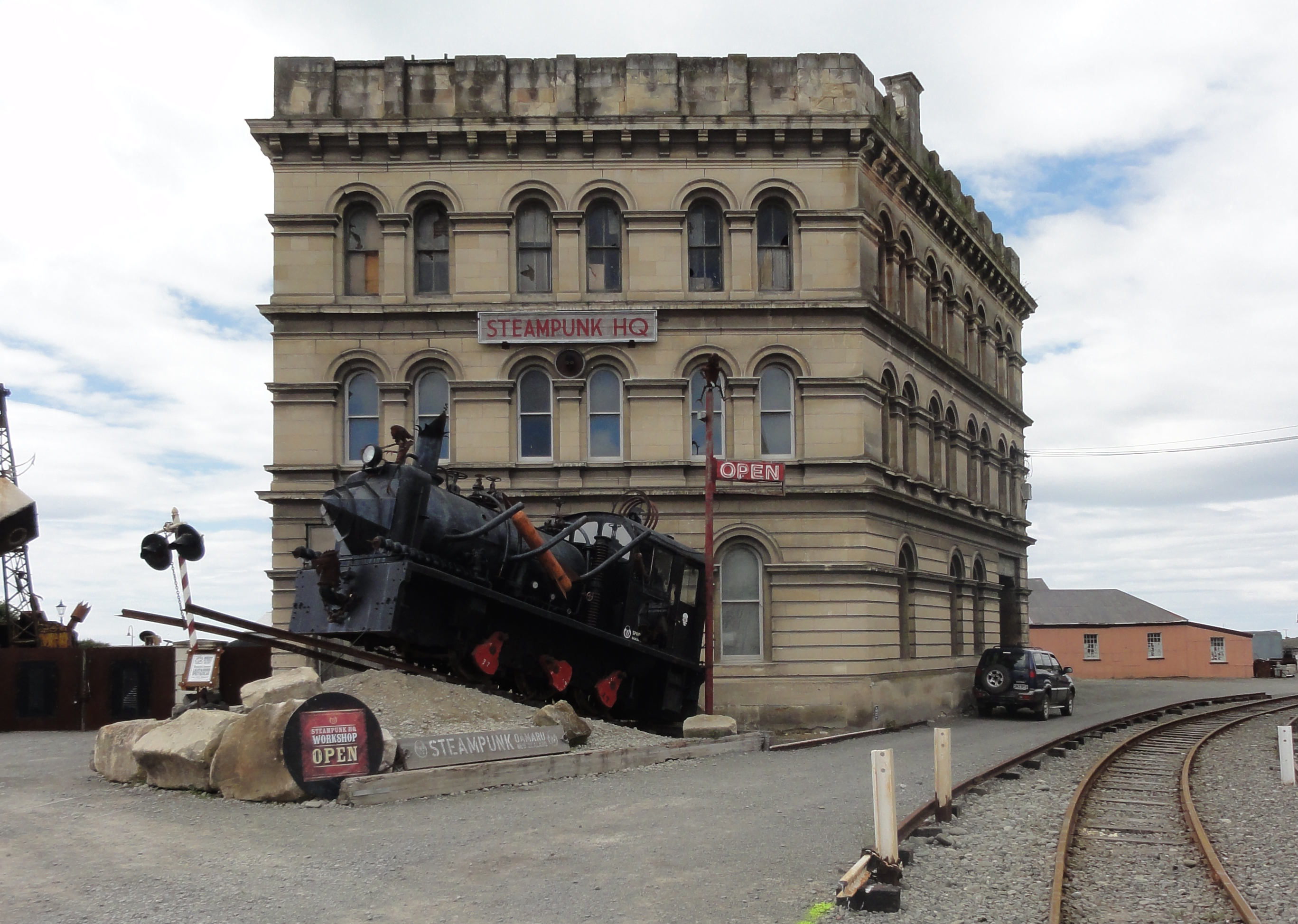 Steampunk Headquarter, Oamaru, New Zealand